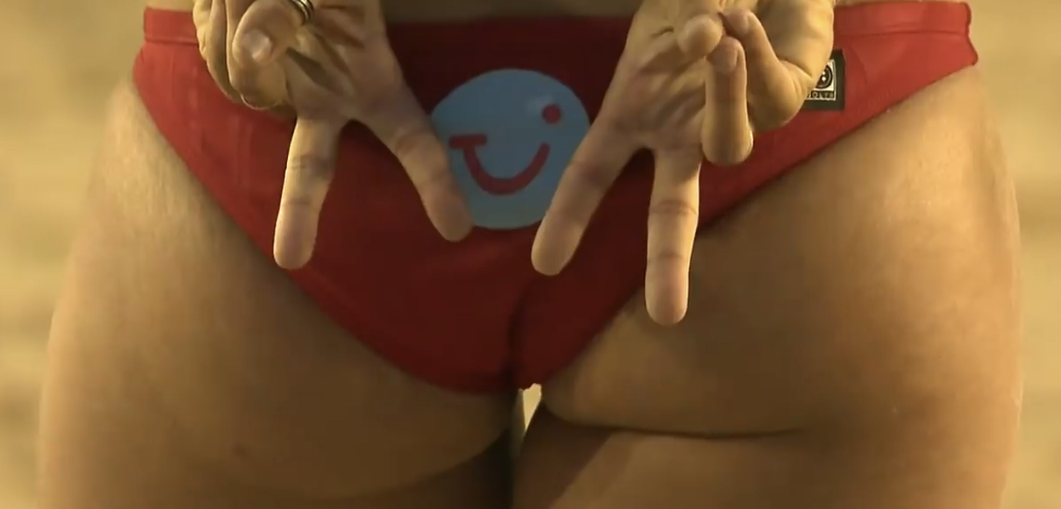 The crosscourt block signal can be presented by placing 2 finger (v-shaped) on your backside so that yout teammate can have the clear look.